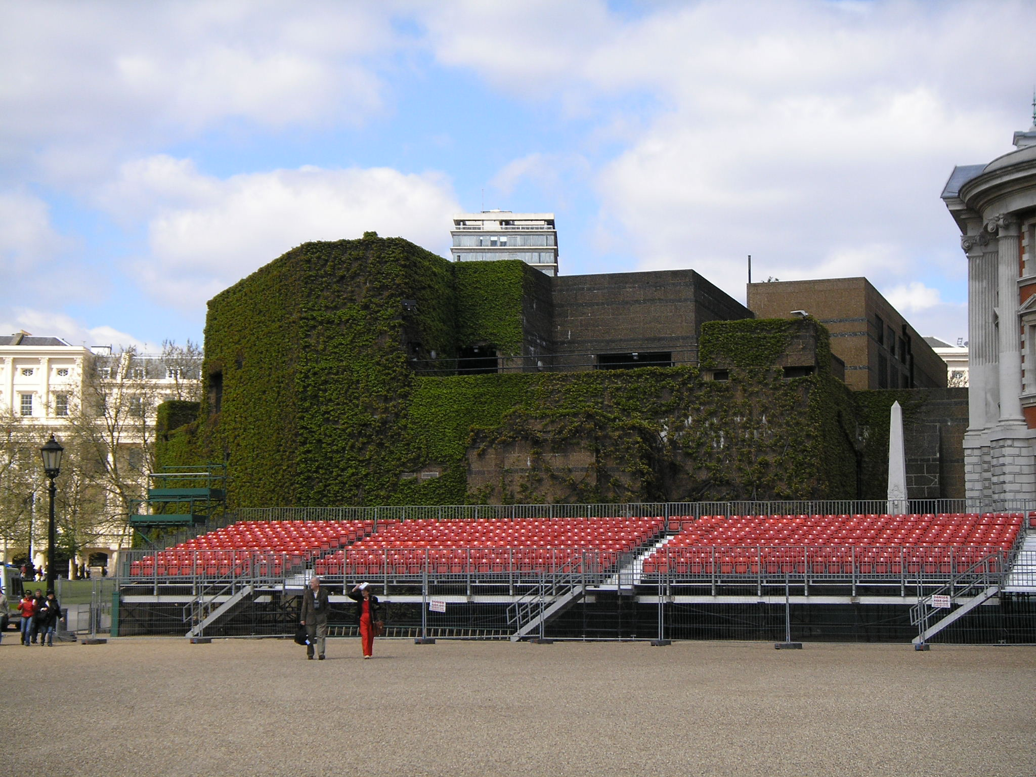 The Admiralty Citadel in London. Photo taken 30 April 2006.